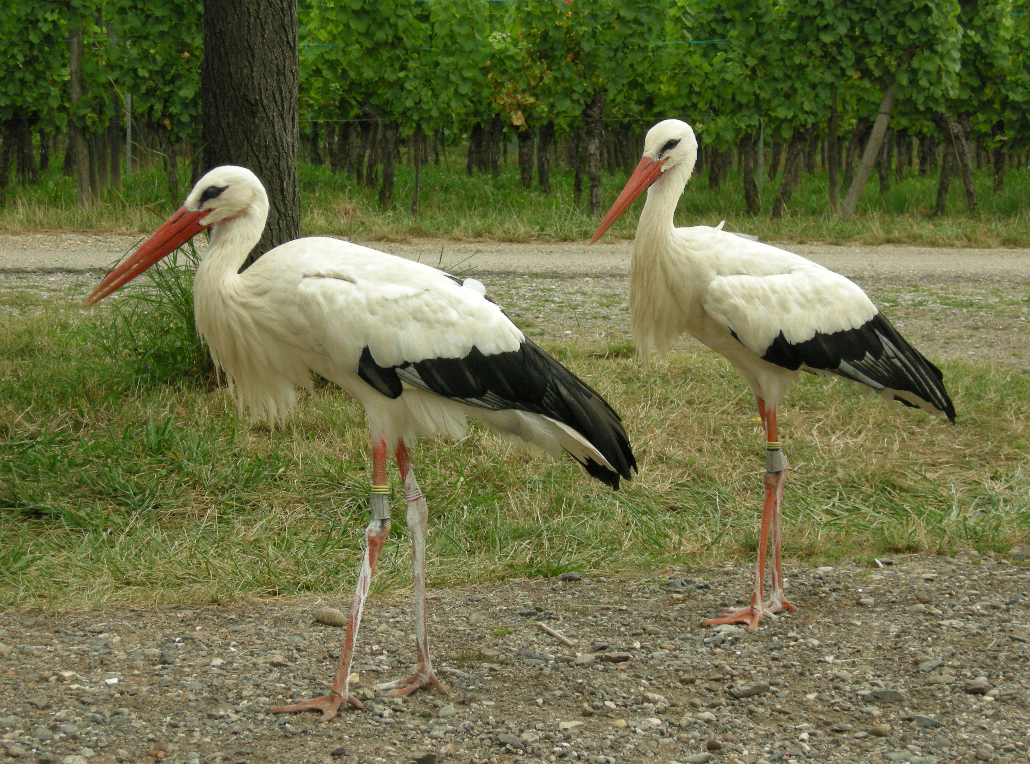 Two White Storks in Alsace, France.